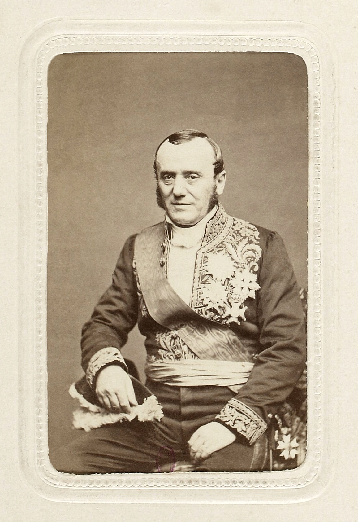 Adolphe Billault (1805-1863), french lawyer, member of Parliament, several times minister.